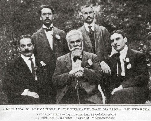 Five Bessarabian politicians in 1913: Simion Murafa, Pan Halippa, Nicolae N. Alexandri, Daniil Ciugureanu and Gheorghe Stârcea.